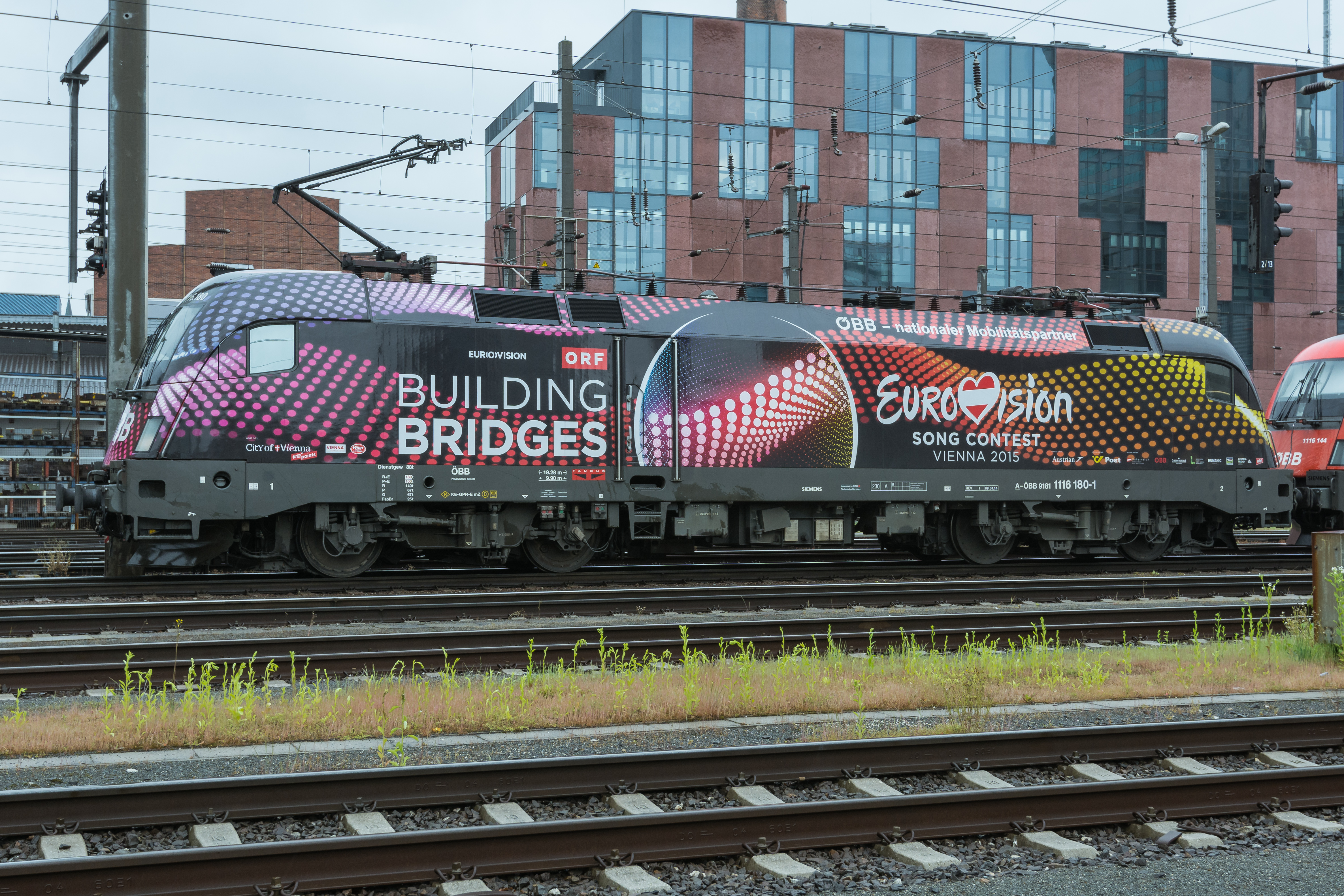 Because the Eurovision Song Contest 2015 was arranged in Vienna the austrian broadcasting company ORF let revarnish two locomotives of type 1116 in suitable design for advertising purposes.